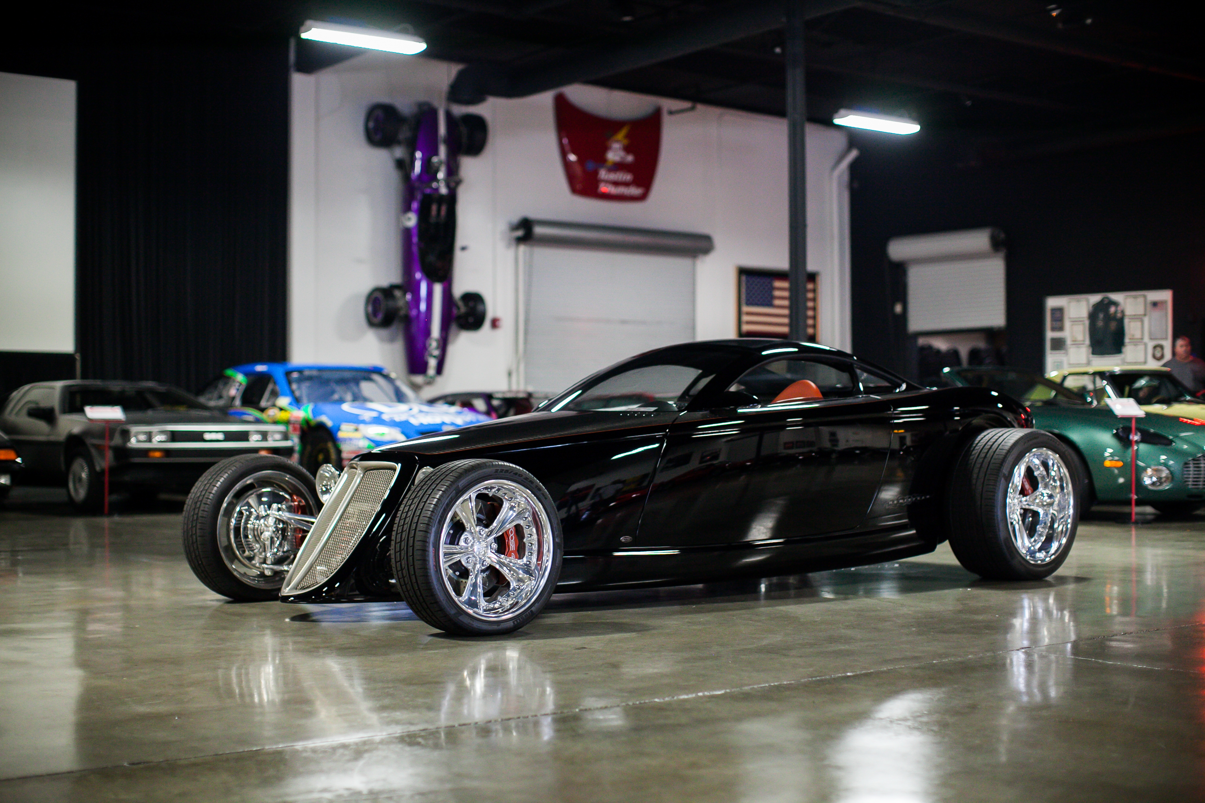 This 2006 Hemisfear is one of 50 produced and one of two called a Hemi(s)fear. The other 48 are called Chip's Coupe.